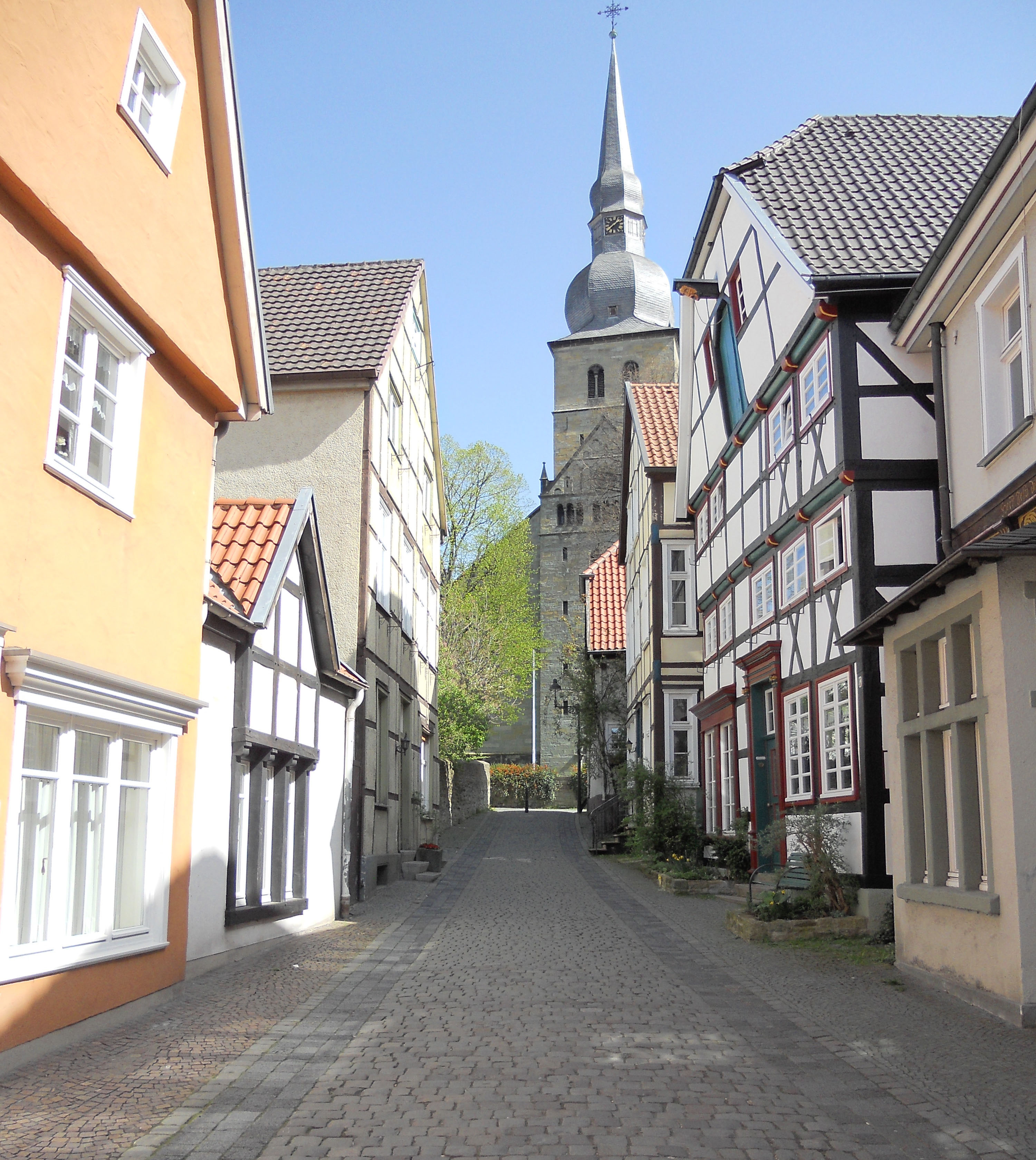 Krämergasse in Werl This image shows a heritage building in Germany, located in the North Rhine-Westphalian city Werl (no. A 114). This image shows a heritage building in Germany, located in the North Rhine-Westphalian city Werl (no. A 115).